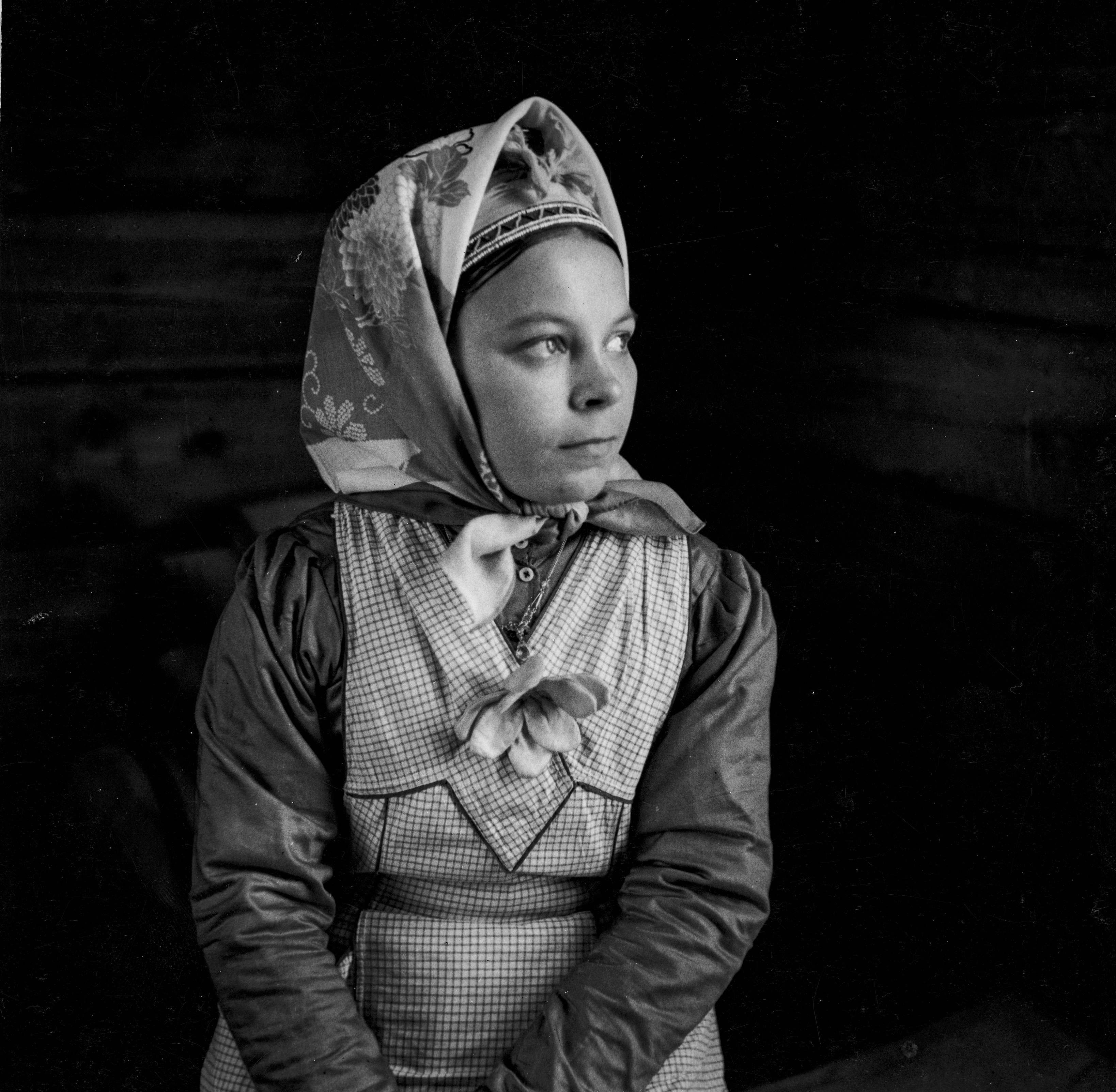 Skolt Sami girl